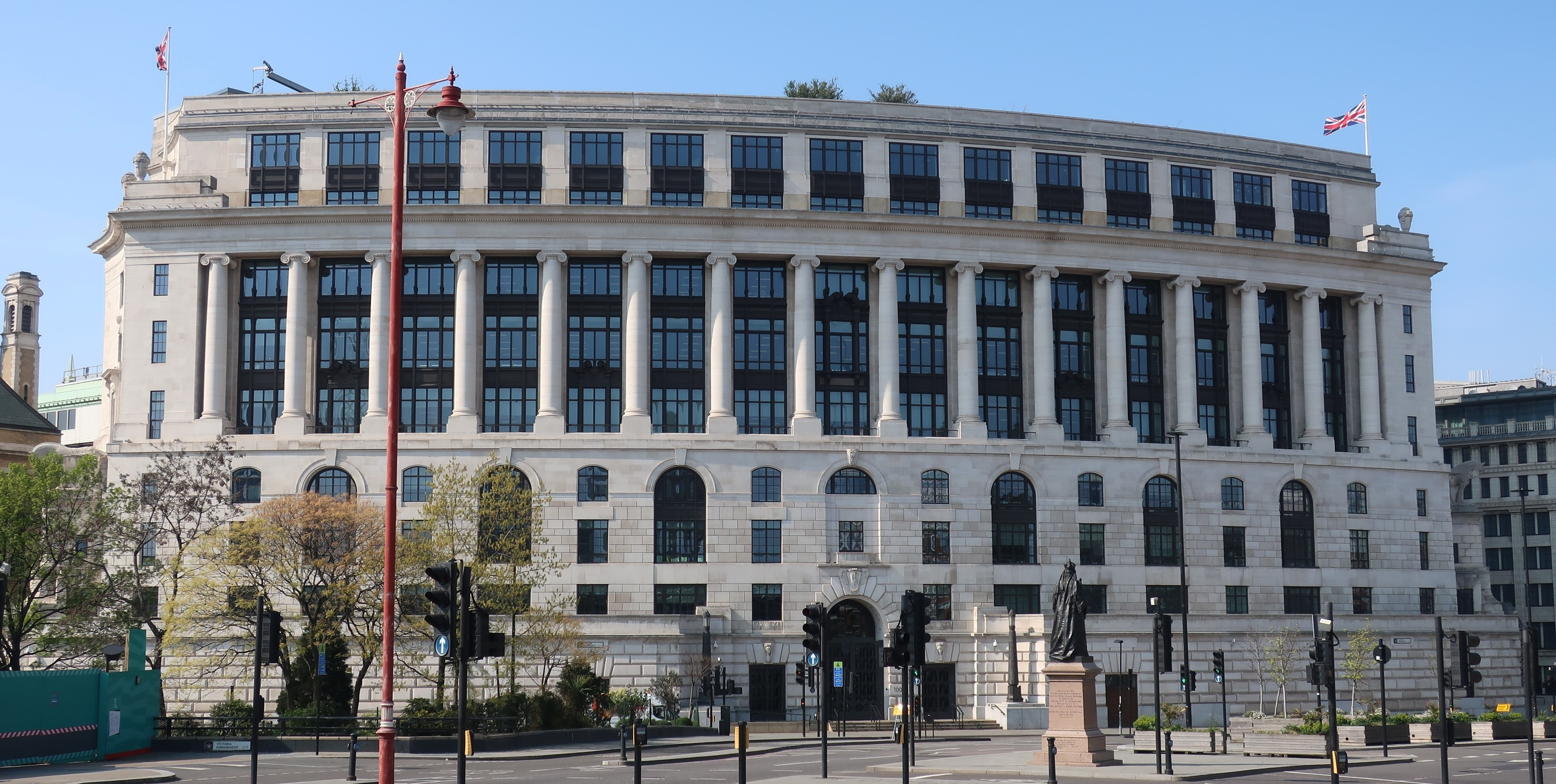 Unilever House, London EC4, viewed from Blackfriars Bridge.